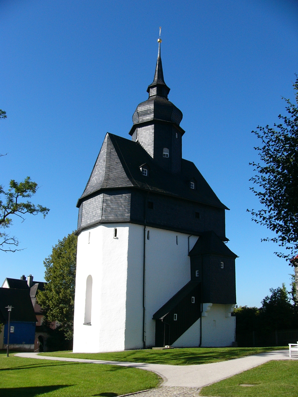 Bad Steben church St. Walburga